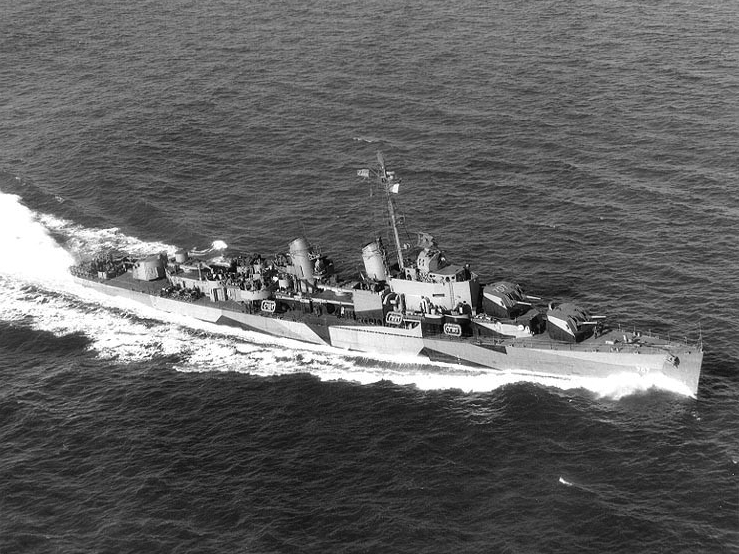 The U.S. Navy destroyer USS Soley (DD-707) underway on 22 December 1944. Photographed from a Naval Air Station New York (USA), aircraft, flying at an altitude of 90 metres (300 feet). The ship is wearing Camouflage Measure 32 Design 11A.